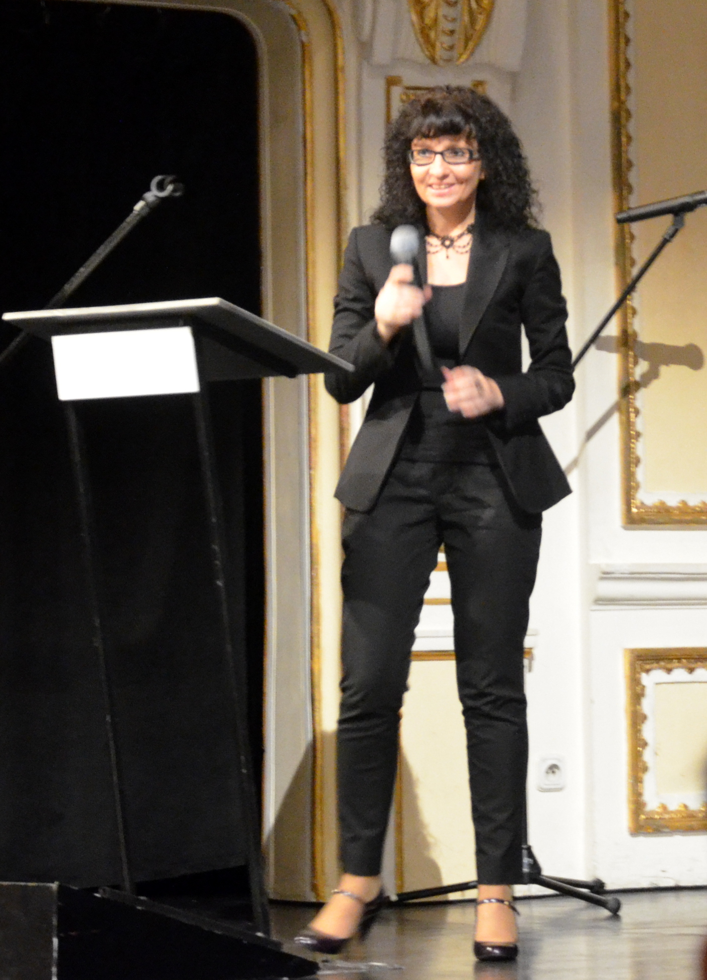 Jolanta Rycerska (ZPAF) - 6. Foto Art Festival